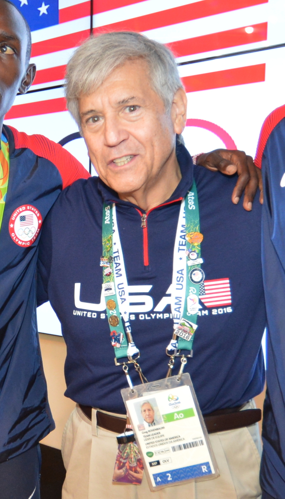 A scene from Secretary of the Army Eric Fanning and members of President Barack Obama's U.S. Delegation to Brazil visit Army Olympians at the USA House in Rio de Janeiro on Sunday, Aug. 21, 2016. U.S. Army photo by Tim Hipps, IMCOM Public Affairs